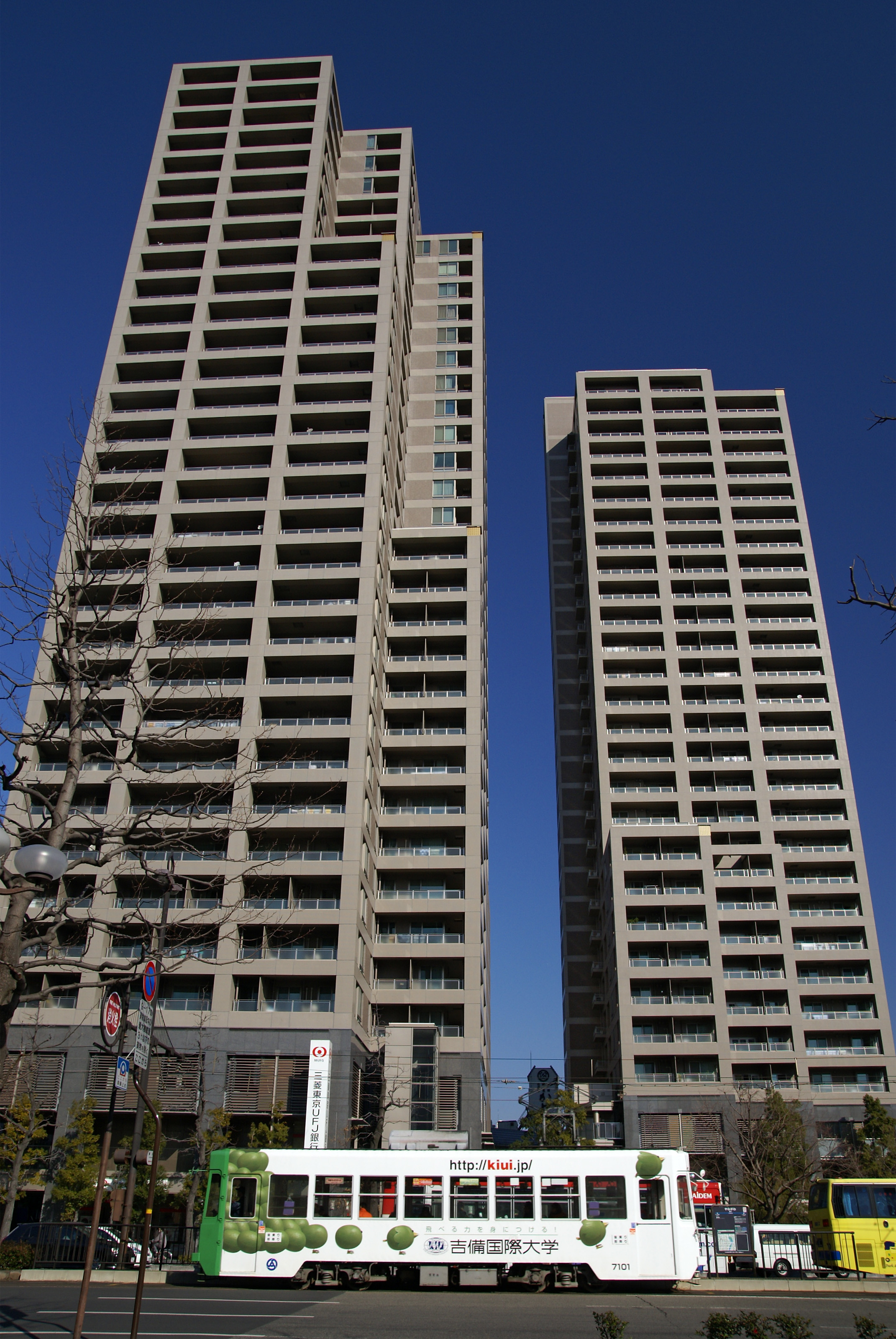 Grace Tower1 and Grace Tower2 in Okayama, Okayama prefecture, Japan